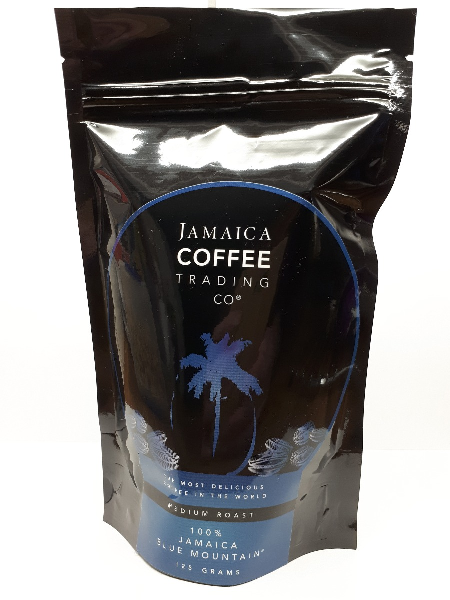 I took this picture on my camera of coffee I bought which was genuine Jamaica Blue Mountain Coffee